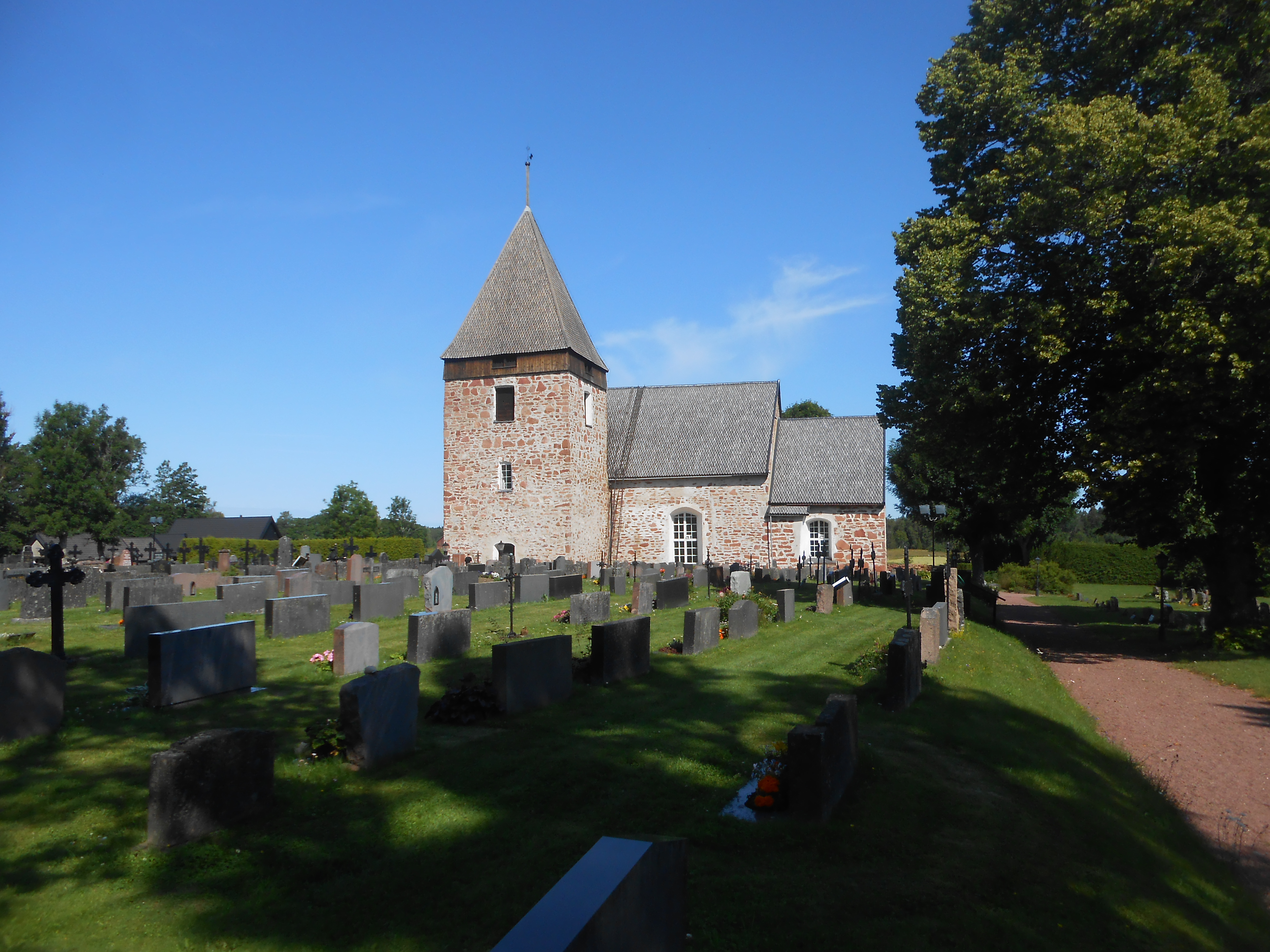 Hammarland Church in Hammarland, Åland, Finland